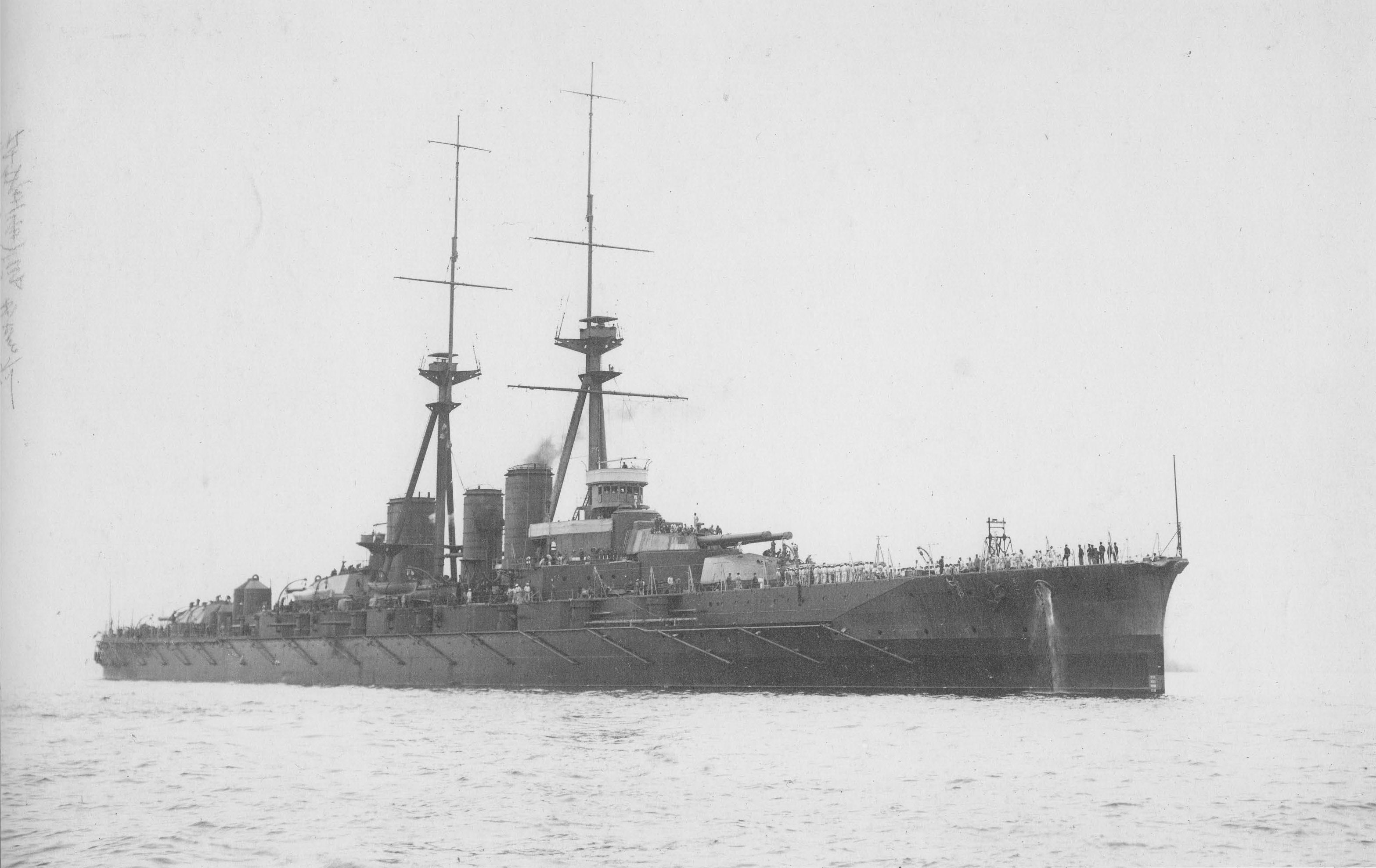 Recently completed Imperial Japanese Navy battlecruiser Hiei departs Yokosuka for Kure, Japan.